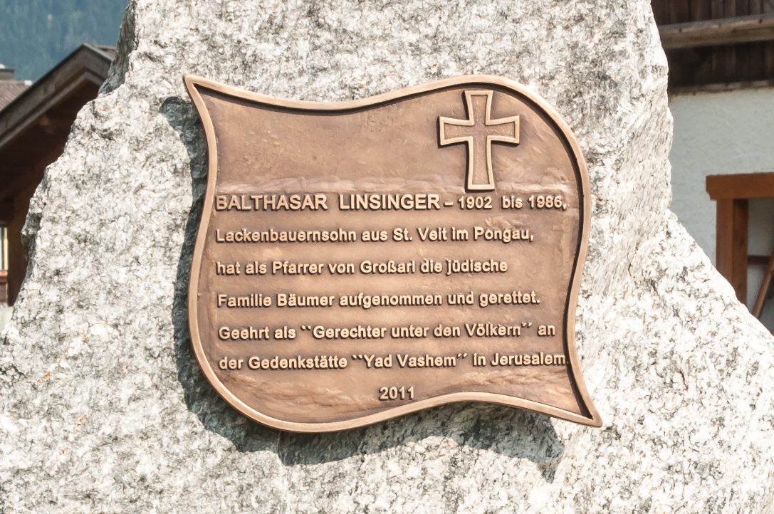 Plaque at the memorial stone for Balthasar Linsinger in St. Veit im Pongau. Linsinger was honored with the title "Righteous Among the Nations".